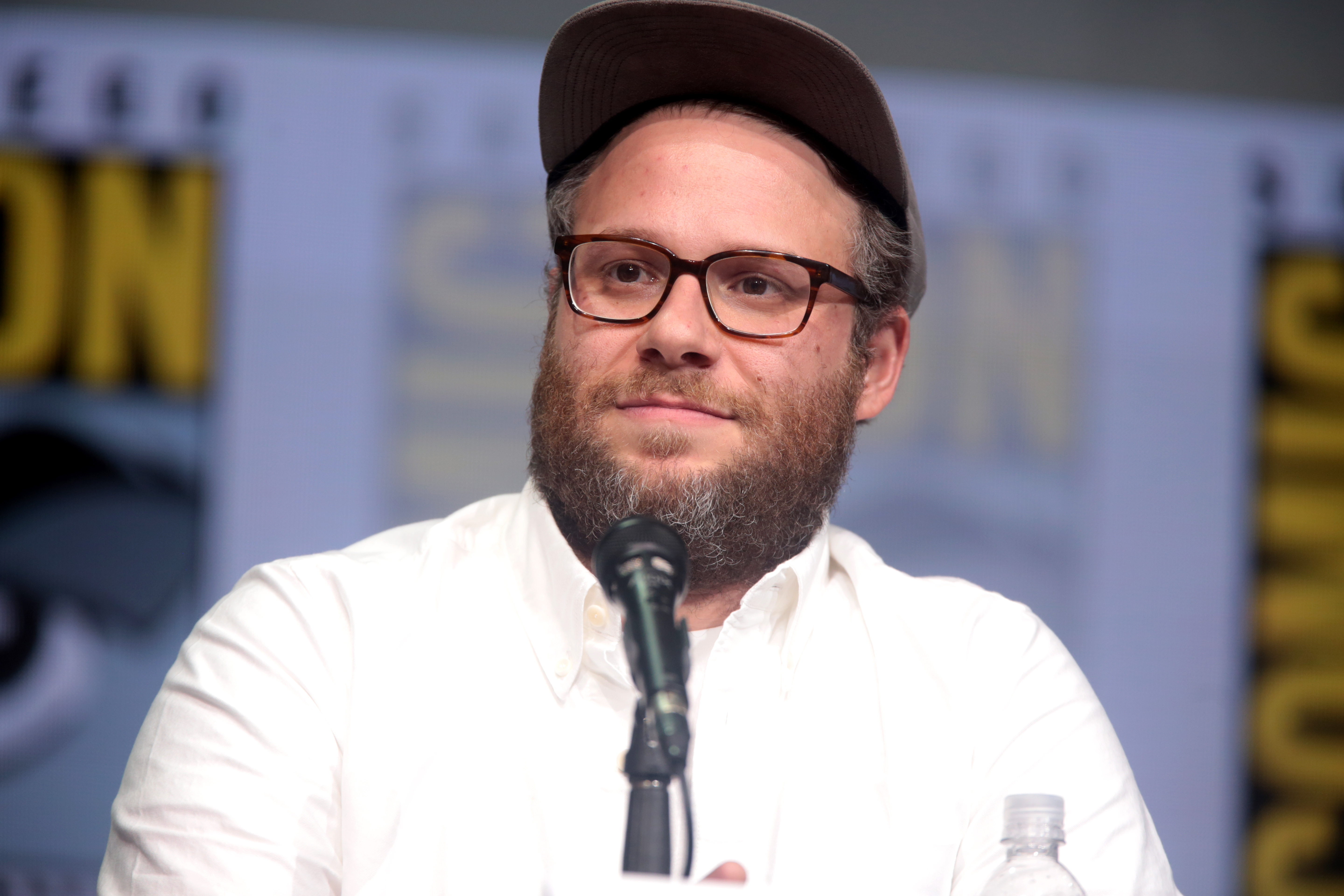 Seth Rogen speaking at the 2017 San Diego Comic Con International, for "Preacher", at the San Diego Convention Center in San Diego, California.